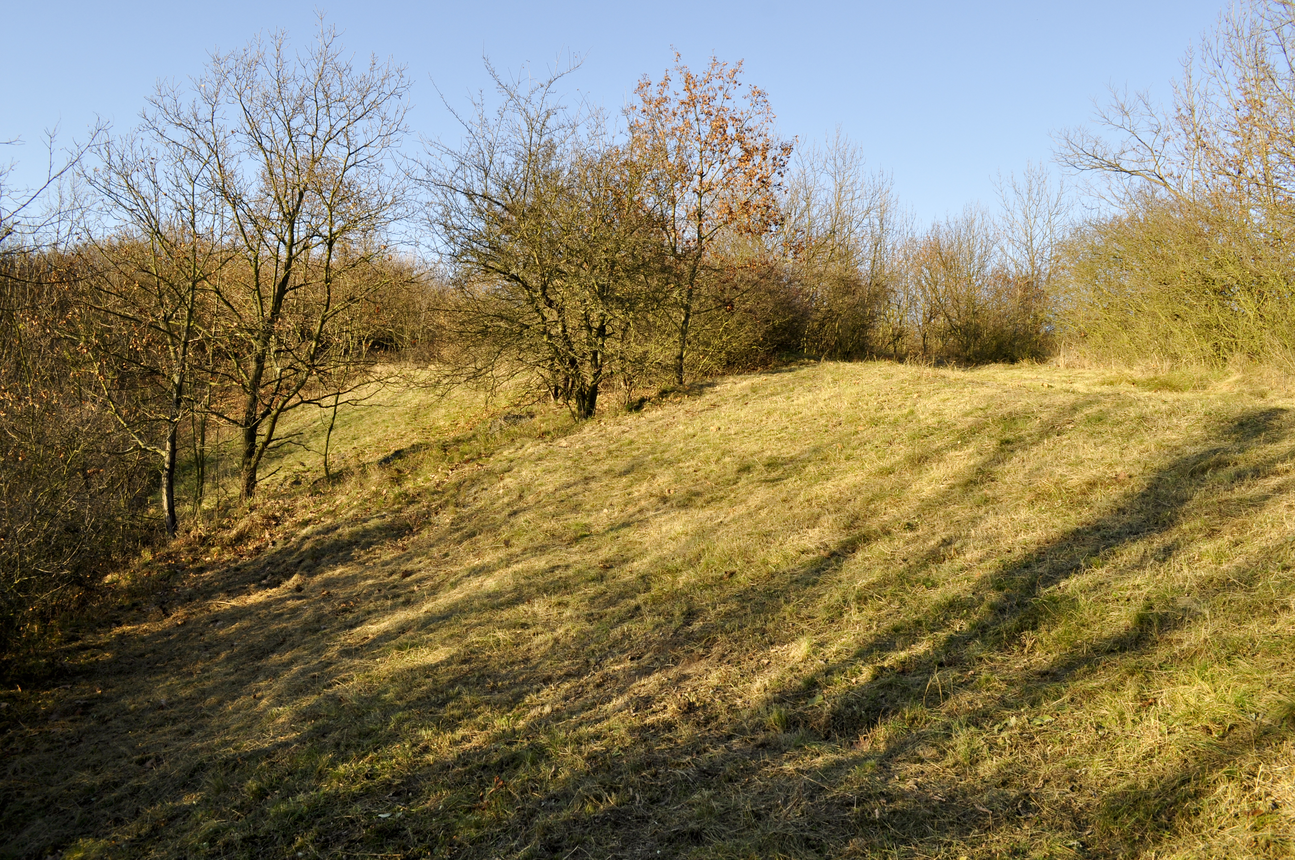 Natural monument Nad Mlýnem - meadow)